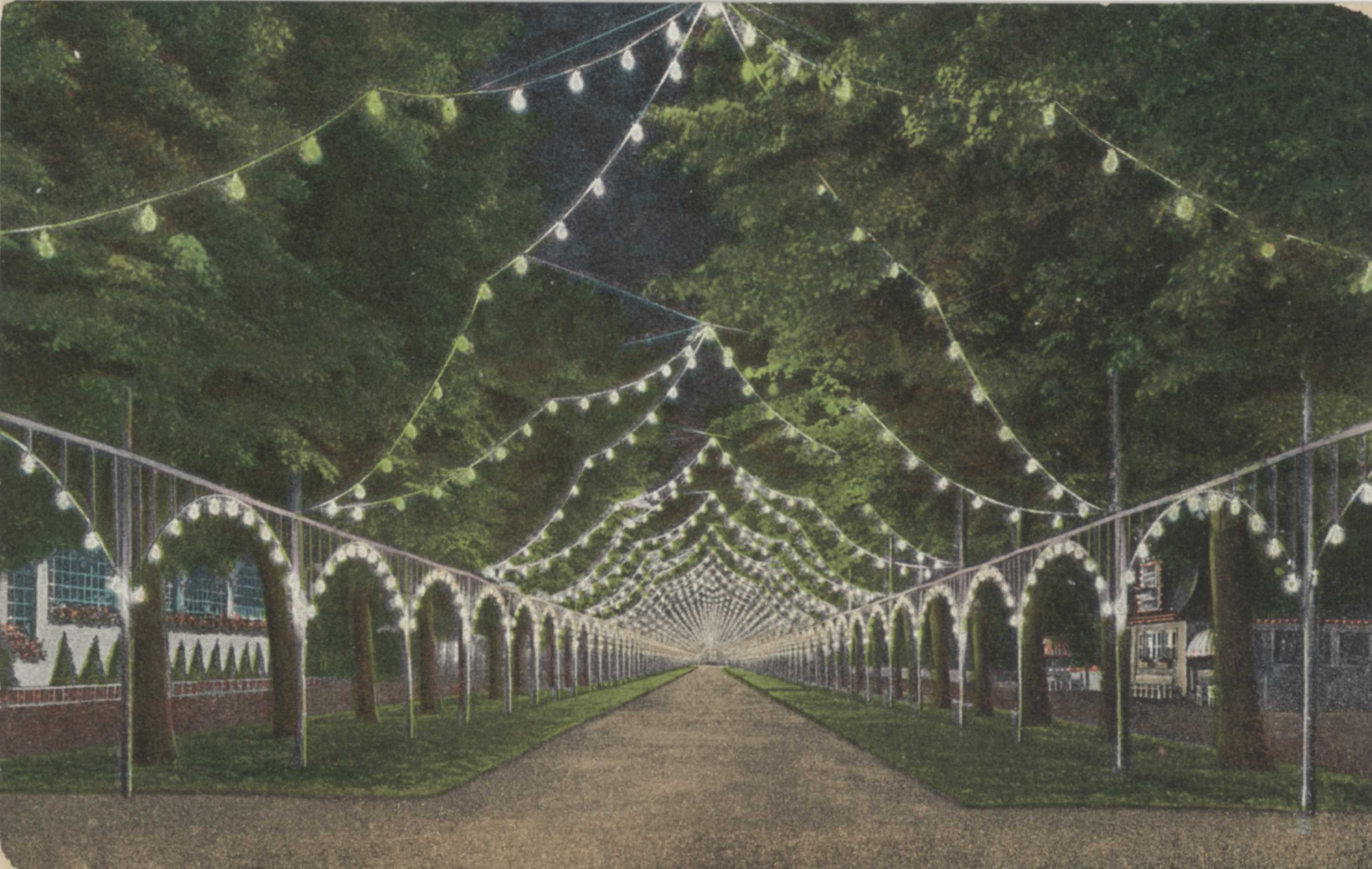 International Hygiene Exhibition Dresden 1911 (hercules avenue)